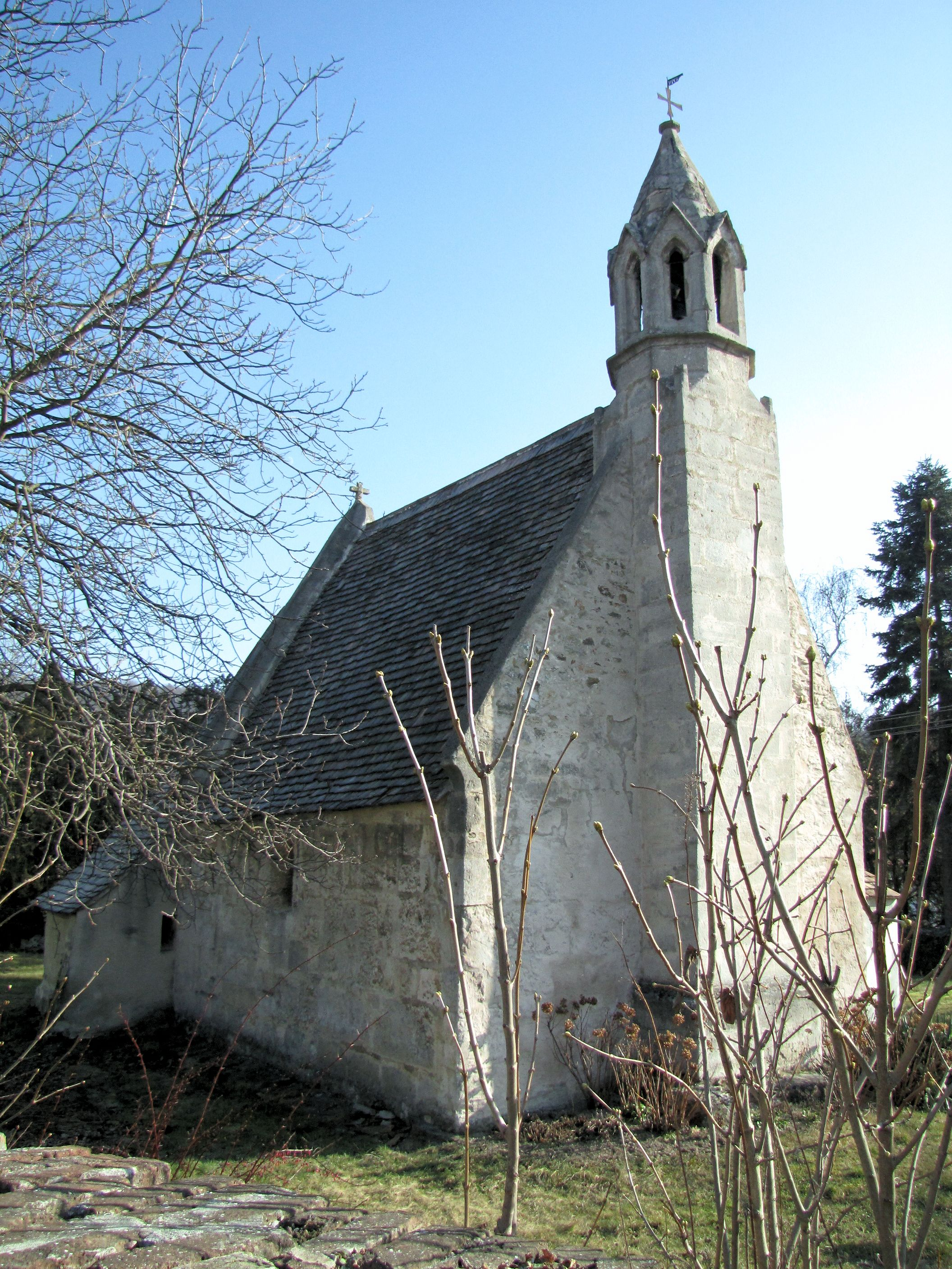 Sopron-Sopronbánfalva, medieval Church of the Holy Ghost.